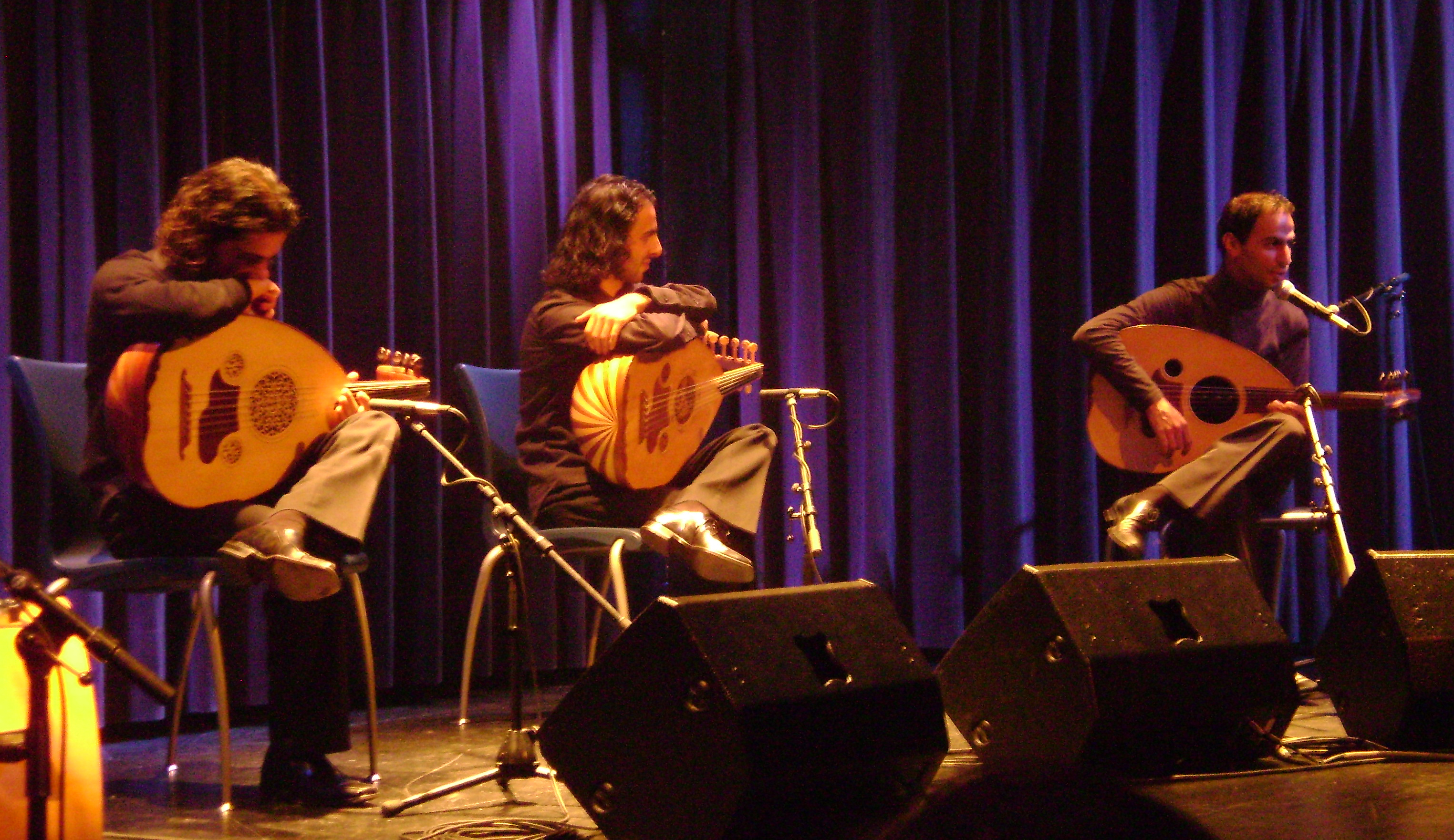 Le Trio Joubran. Treibhaus/Innsbruck/Austria 2008. From left to right: Adnan Joubran, Wissam Joubran, Samir Joubran.